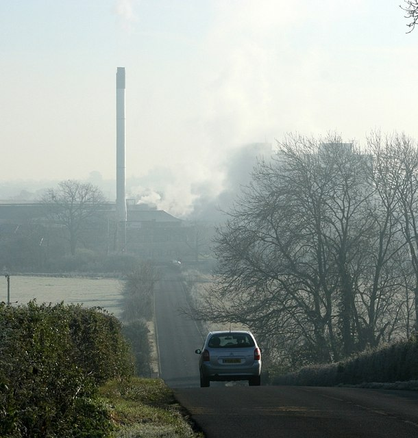 The Staverton Chimney Following a scare in September (2007) it has now been announced that the factory is to be extended and new products introduced.